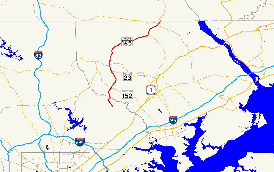 Map of Maryland Route 165